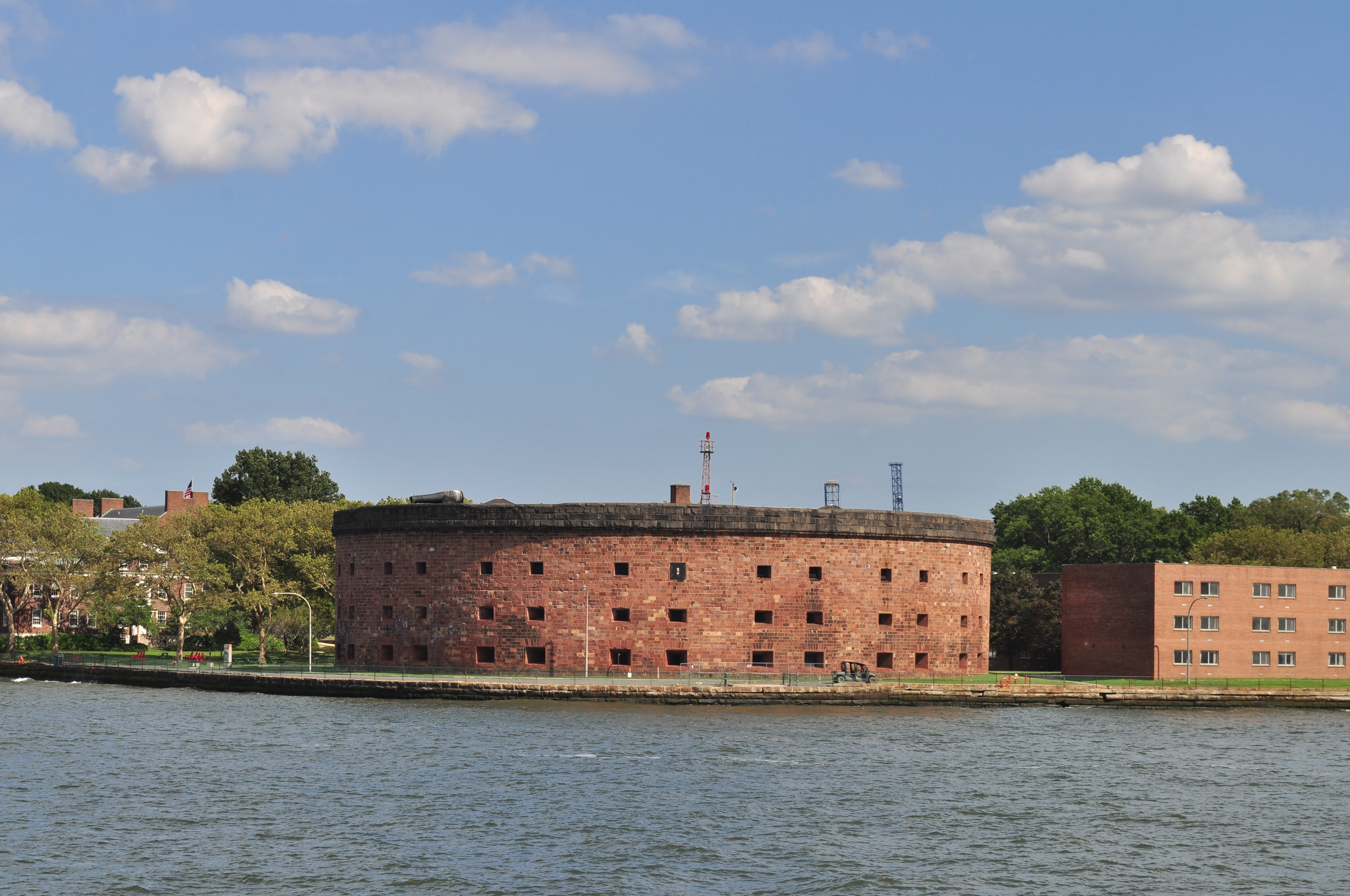 Castle Williams, Governors Island, New York City, New York, seen from New York Harbor on the New York Water Taxi.